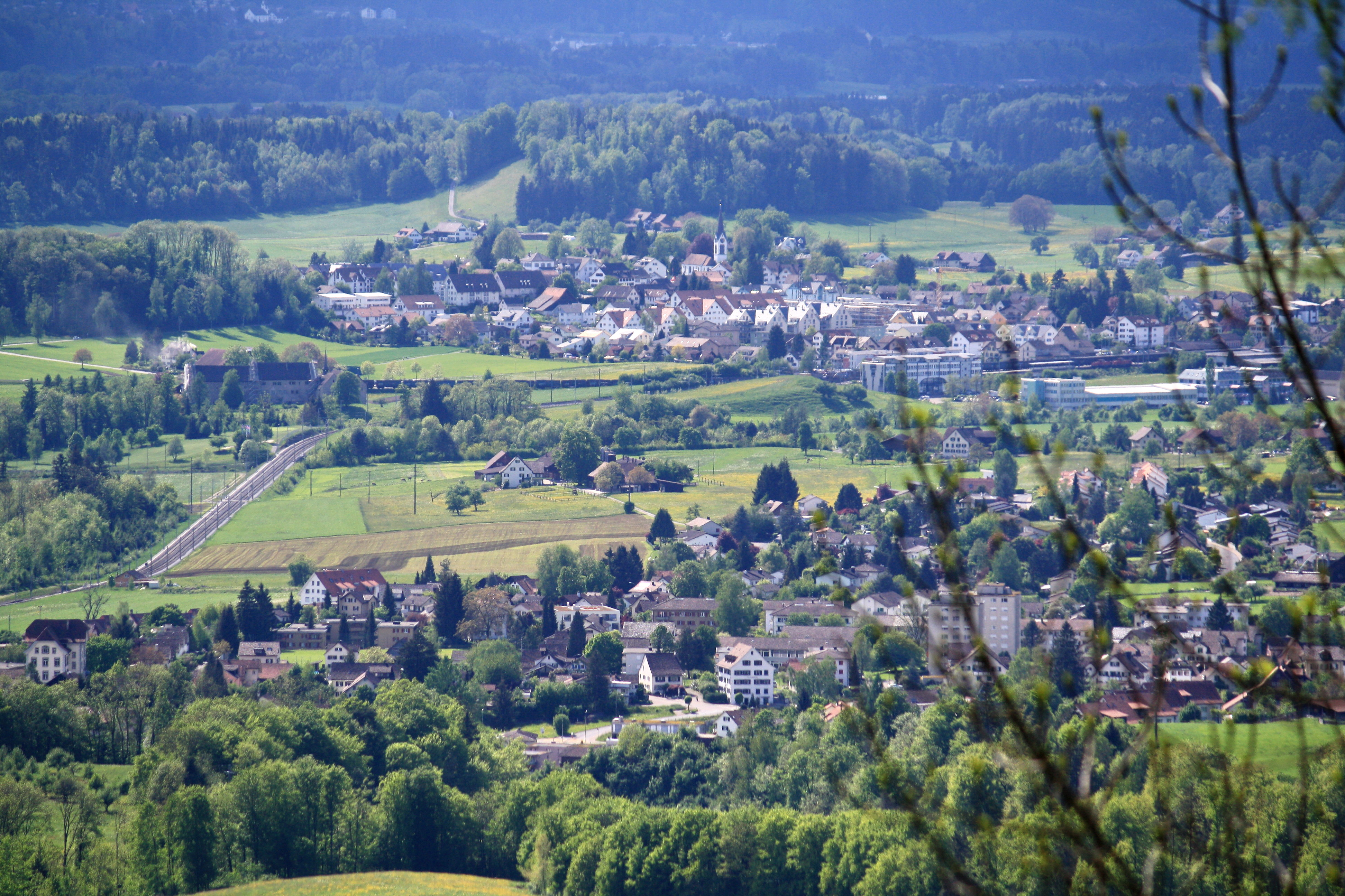 Bubikon (Switzerland) as seen from nearby Batzberg, eastern Pfannenstiel in the background to the right.